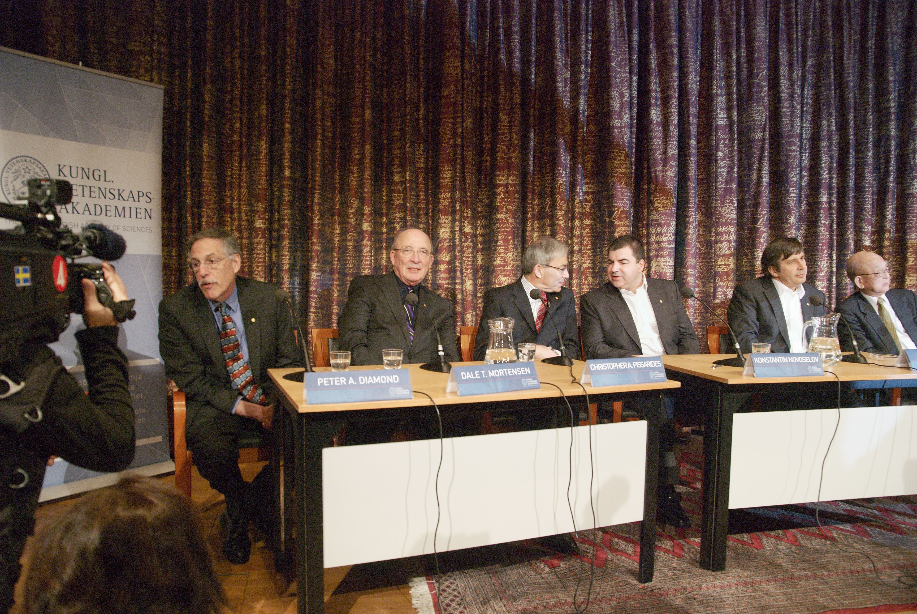 Nobel Prize 2010, press conference with the laureates of the Nobel prizes in chemistry and physics and the memorial prize in economic sciences at the KVA.